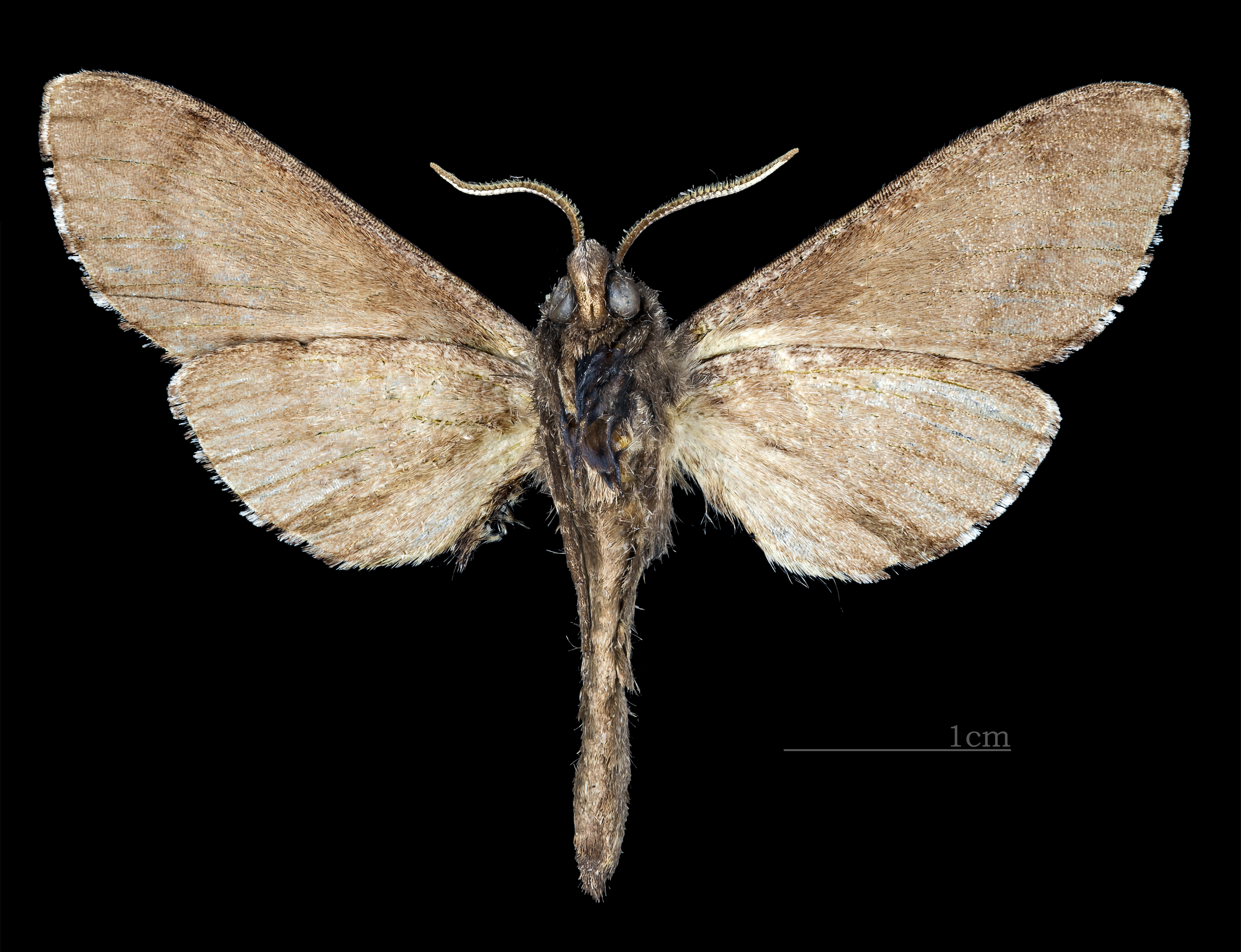 Southern Pine Sphinx - △ Ventral side